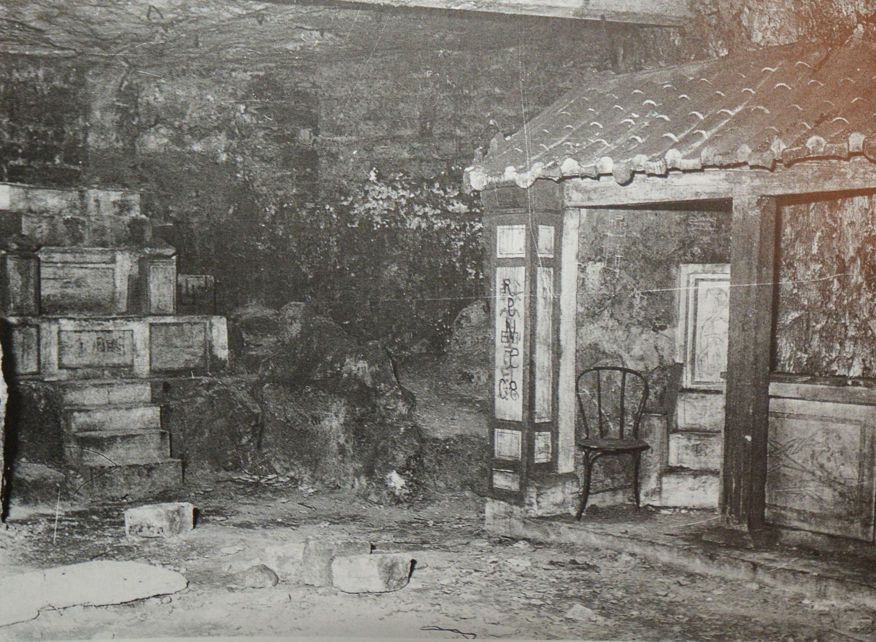 Chinese temple in a quarry under the Palais du Trocadéro, in Paris.